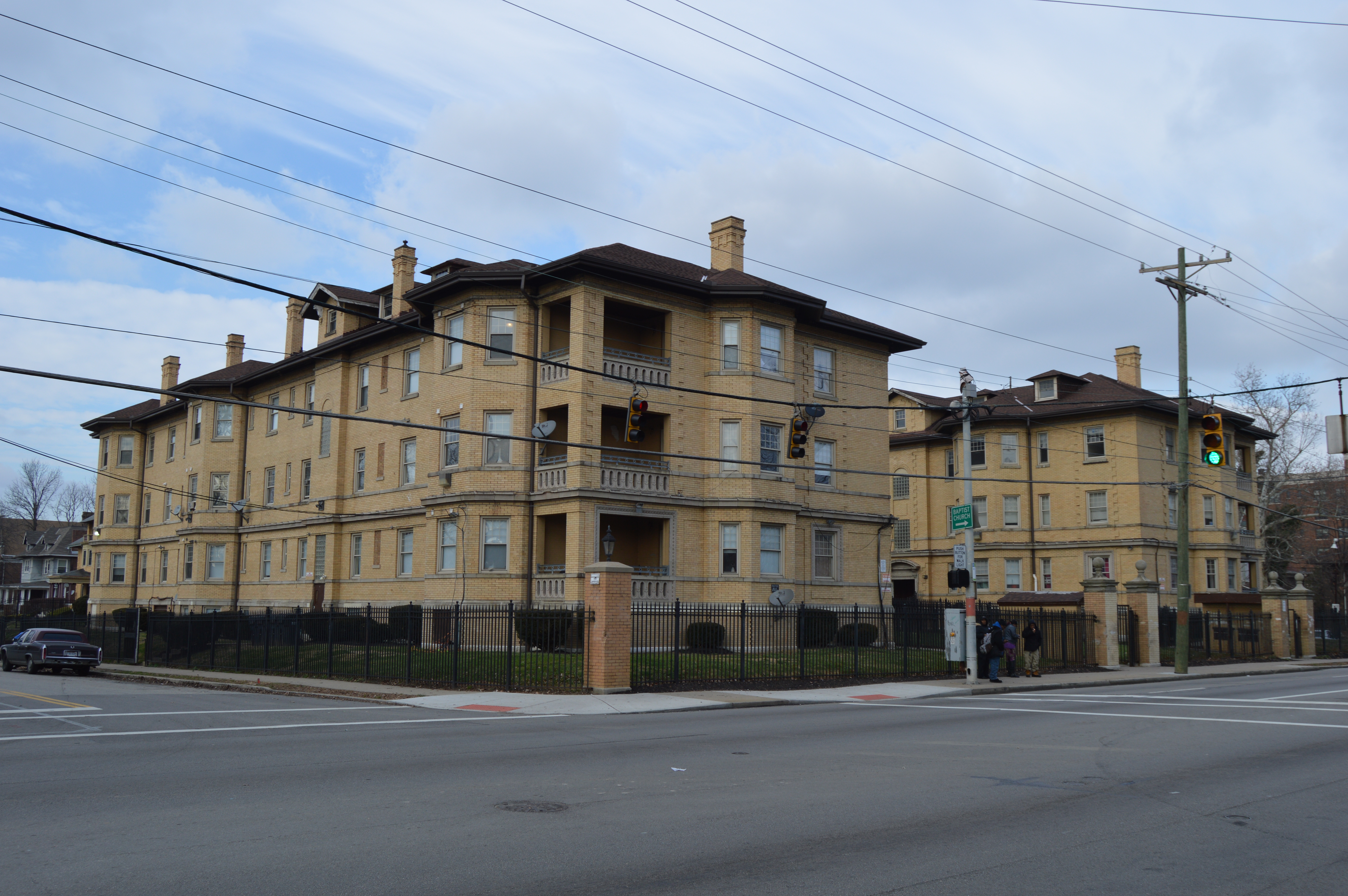 Southern side and fron of the Crescent Apartments, located at 3719 Reading Road (U.S. Route 42) in the North Avondale neighborhood of Cincinnati, Ohio, United States. Built in 1911, it is listed on the National Register of Historic Places.